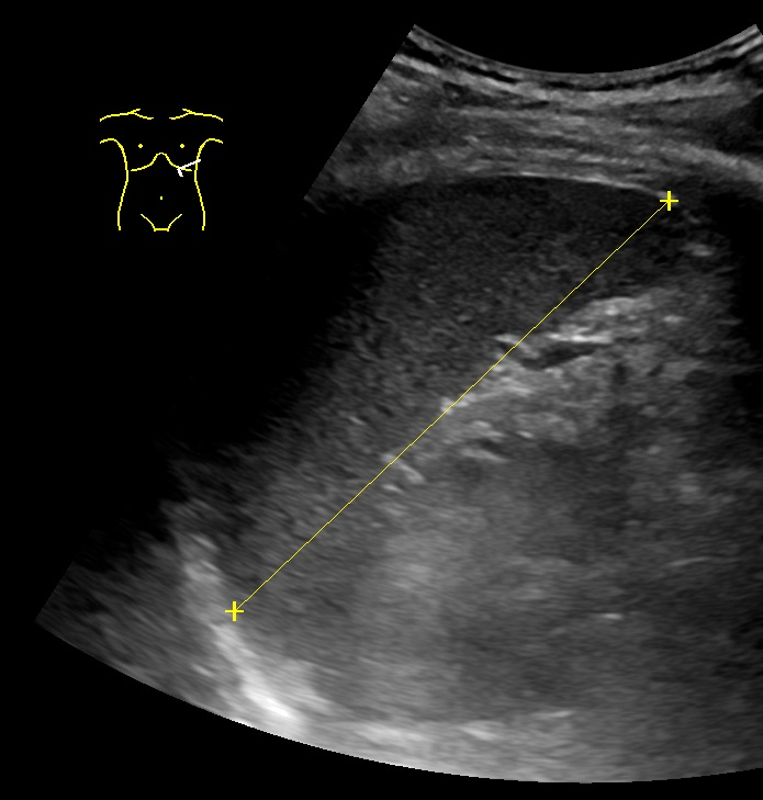 Maximum length of the spleen as measured by medical ultrasonography